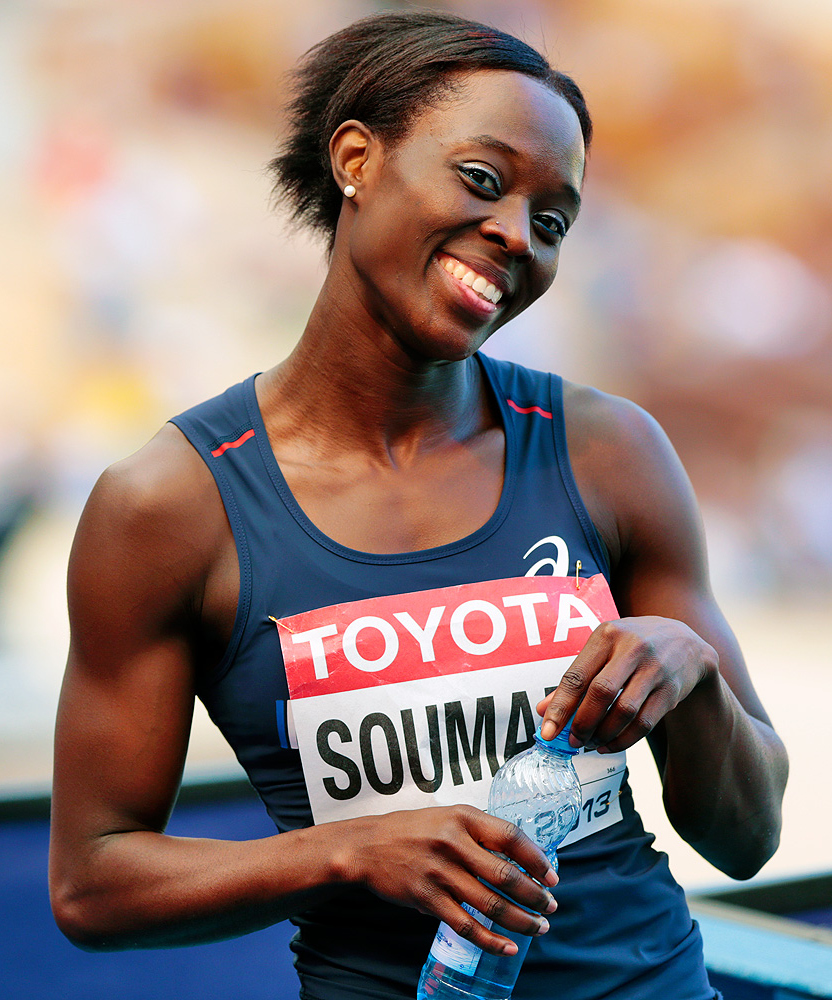 Myriam Soumare in 2013 World Championships in Athletics